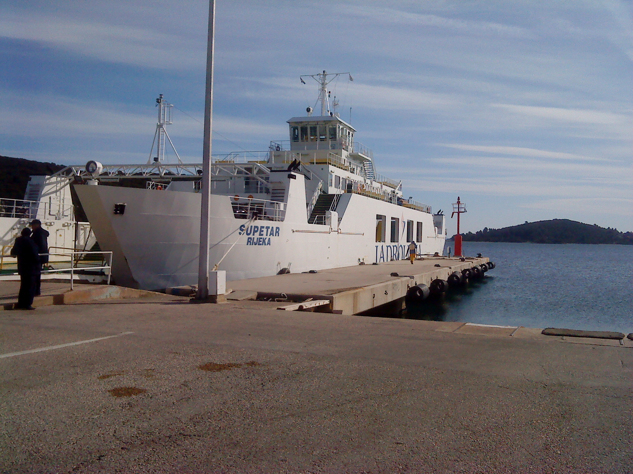 Supetar ferry